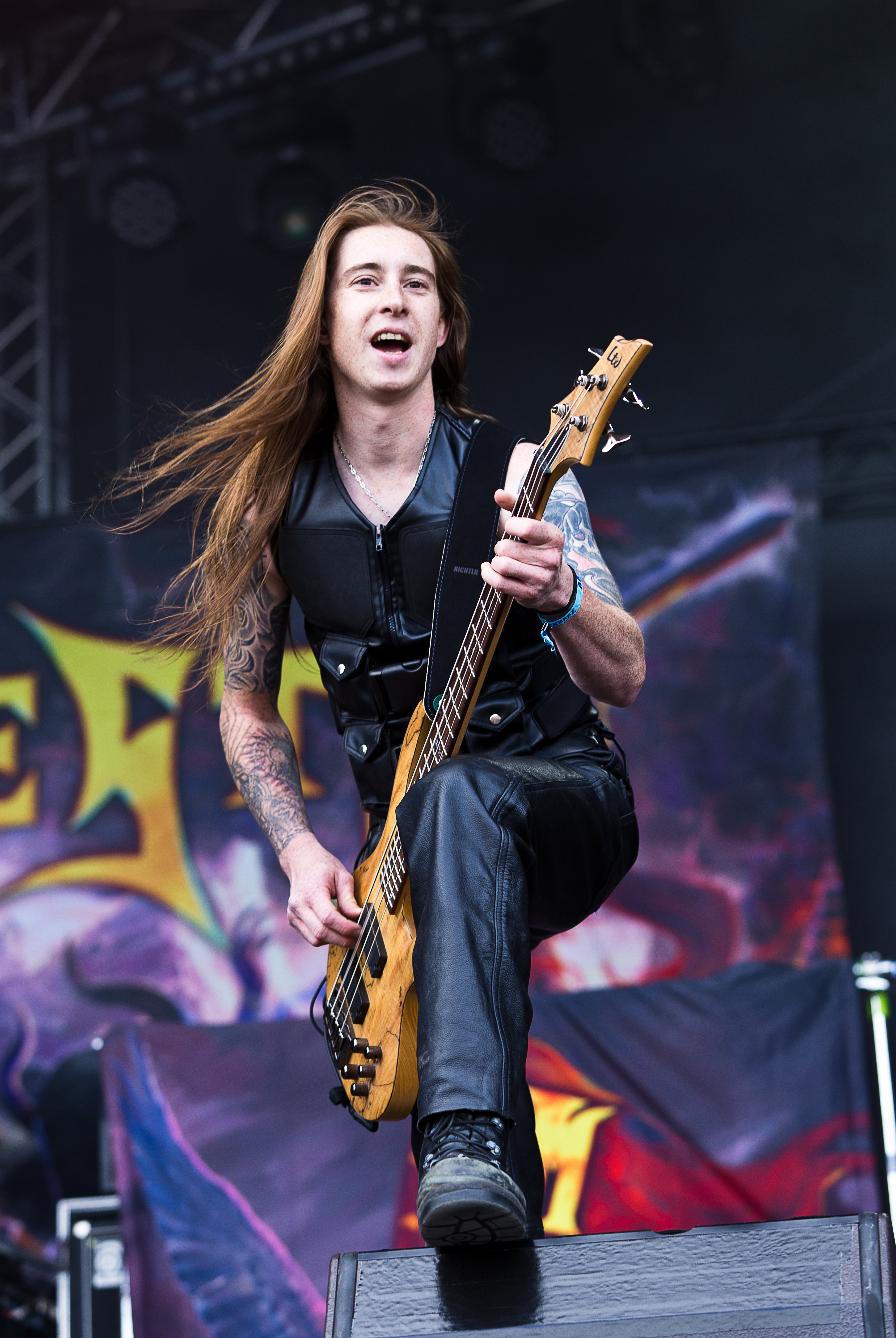 The German heavy metal band Majesty at the Rockharz Open Air 2015 in Ballenstedt/Germany.